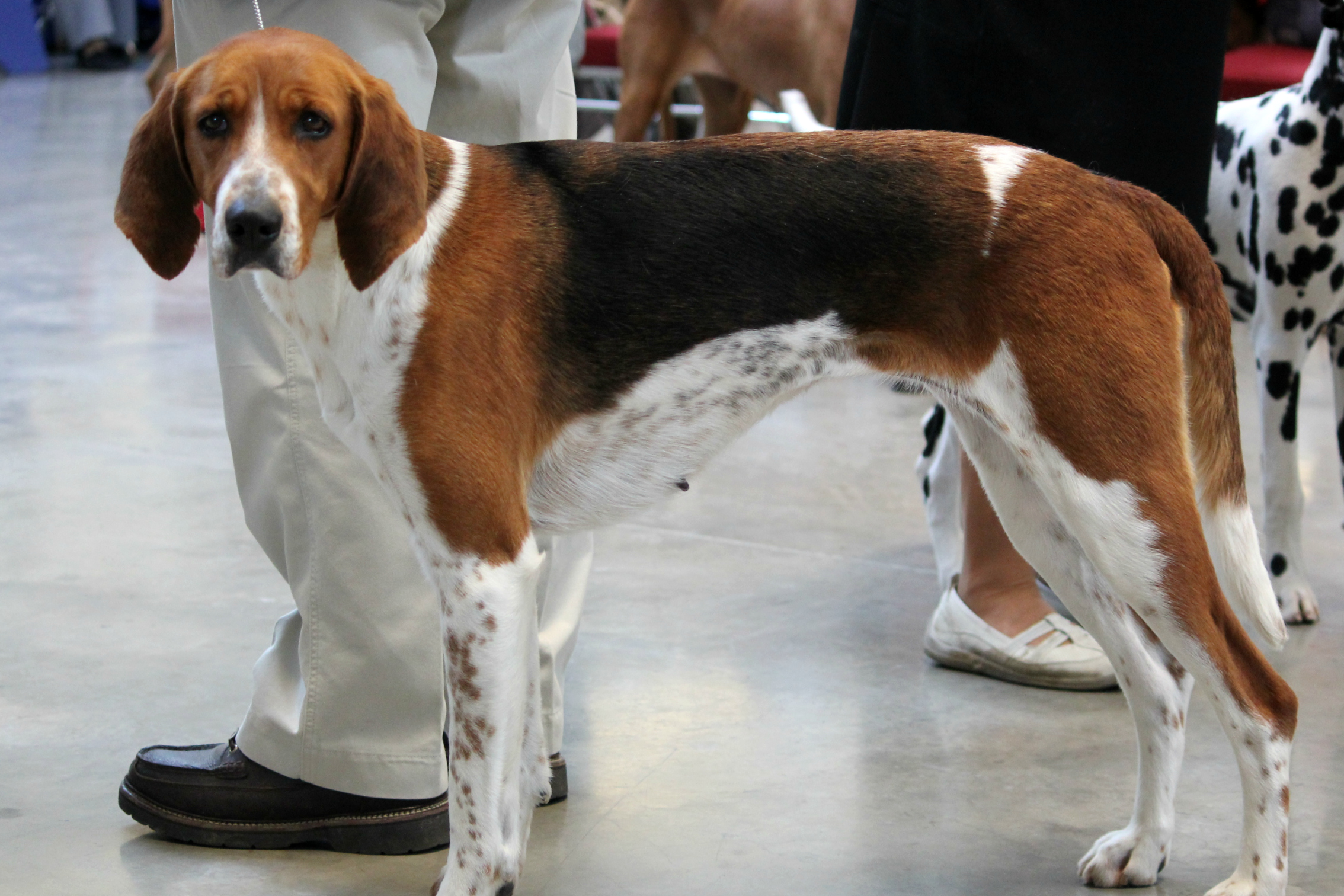 2010 PA Kennel Assoc. Dog Show